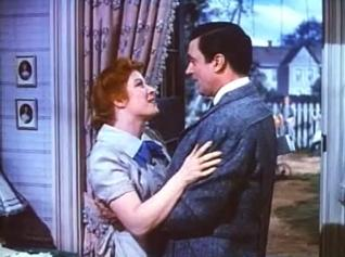 Cropped screenshot of Walter Pidgeon and Greer Garson from the trailer for the film Blossoms in the Dust